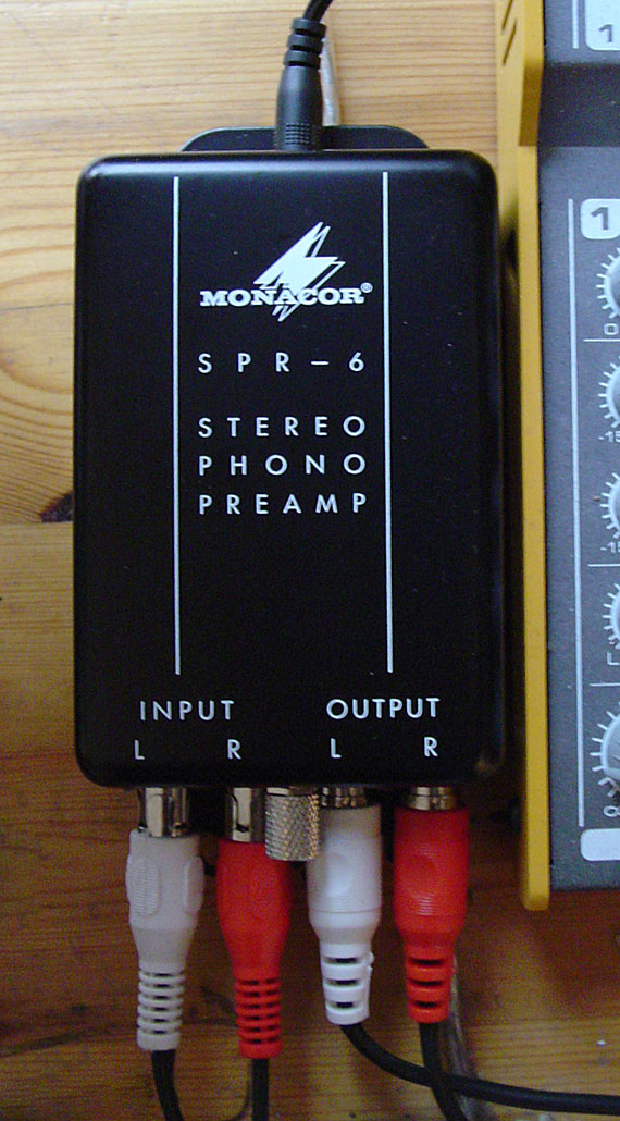 An external phono preamp from Monacor SPR-6